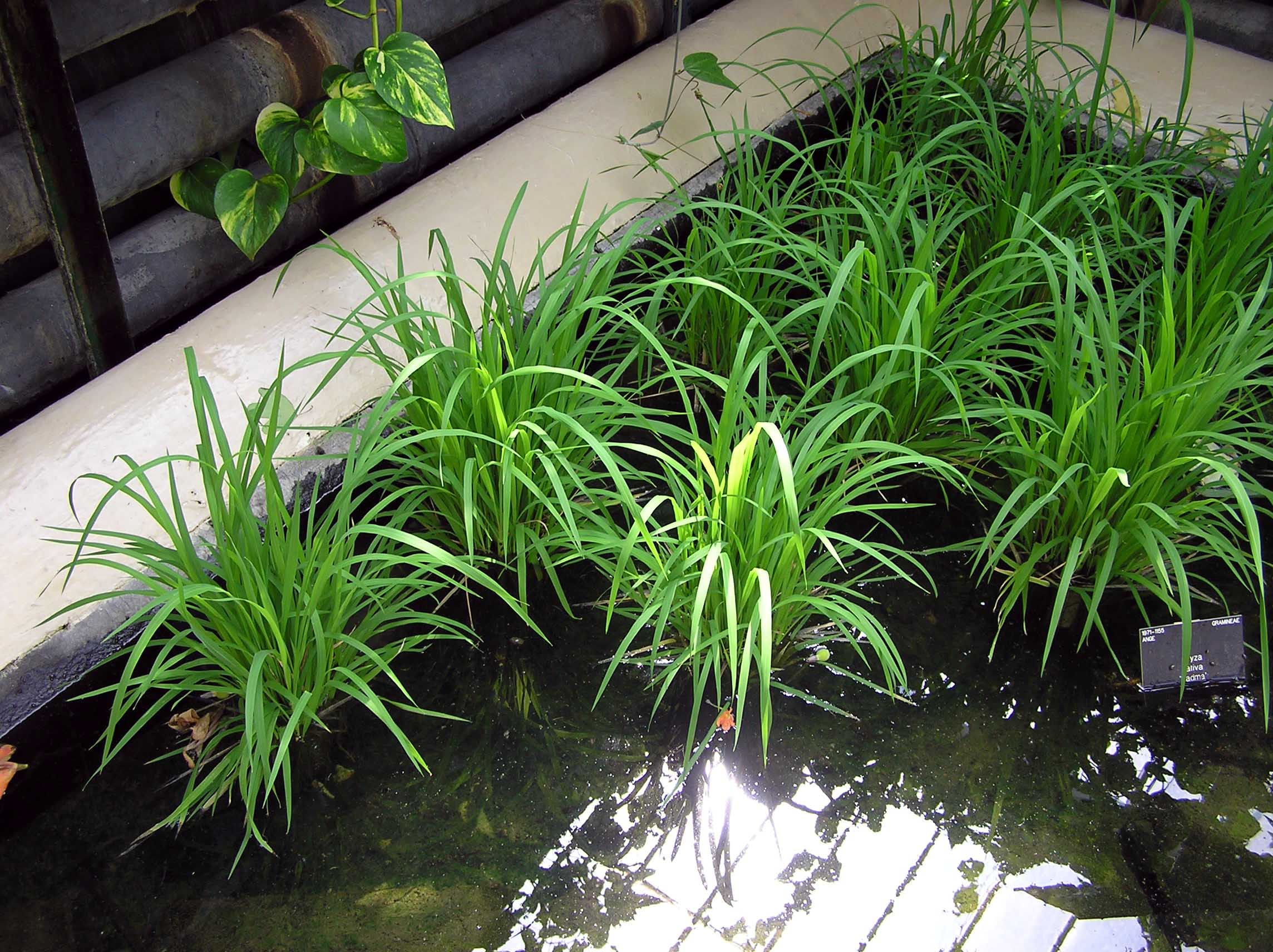 Rice plant Oryza sativa at Kew Gardens, London, England. Photographed by Adrian Pingstone in June 2005 and released to the public domain.